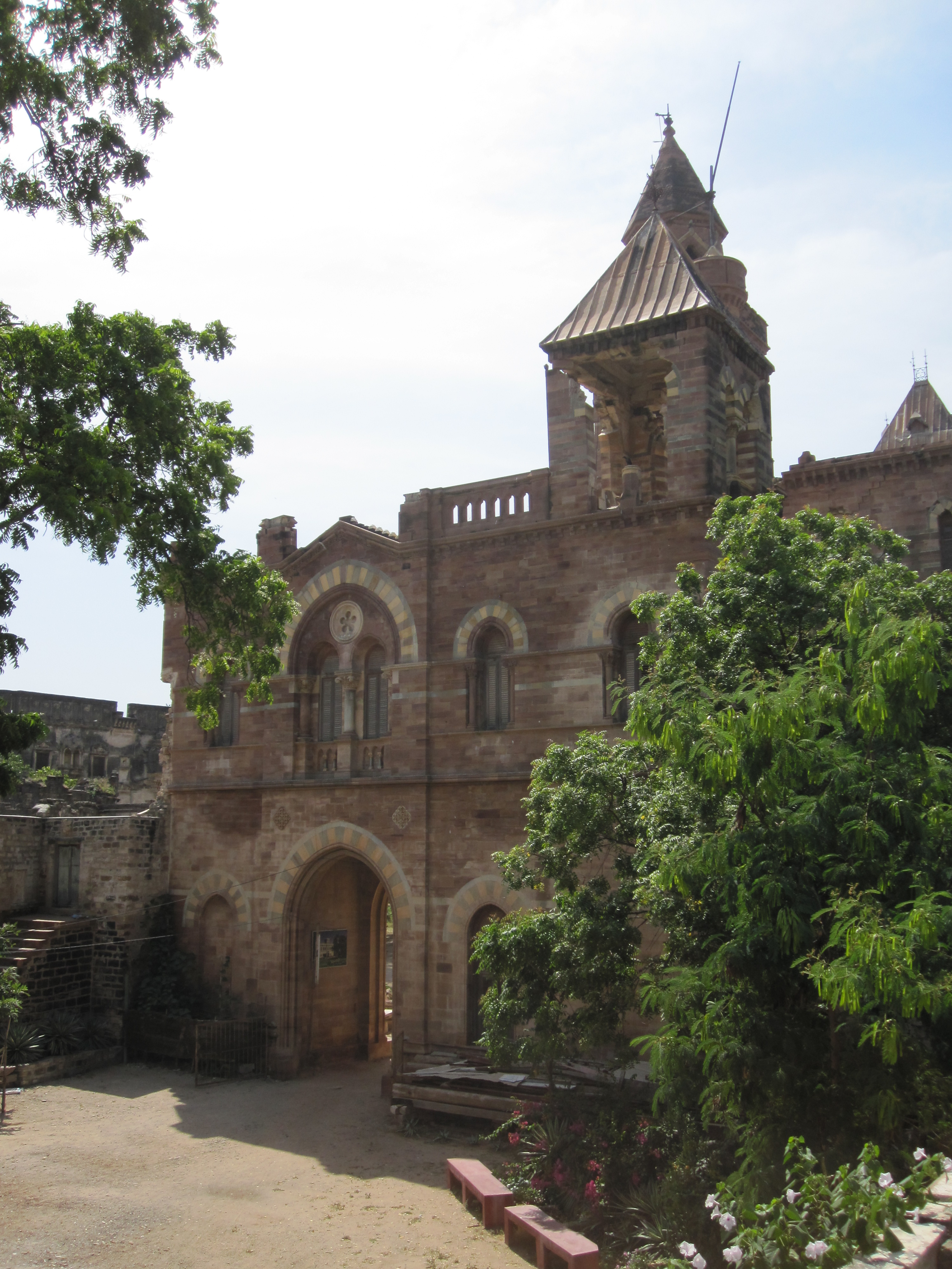 Prag Mahal, Bhuj, India. Check out the earthquake damage to the top tower - it's barely even held together with anything at all.